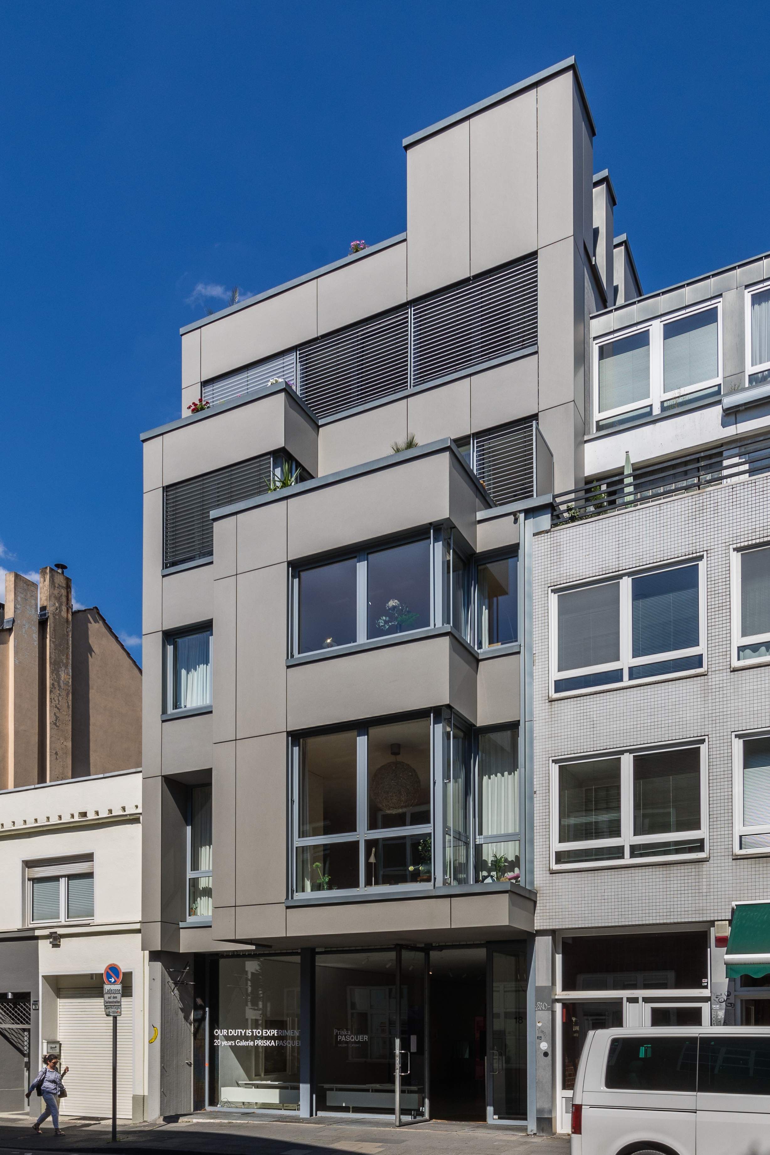 Wohn- und Geschäftshaus Albertusstraße 18, Köln. Architekt: Erich Schneider-Wessling. Baujahr: 1972